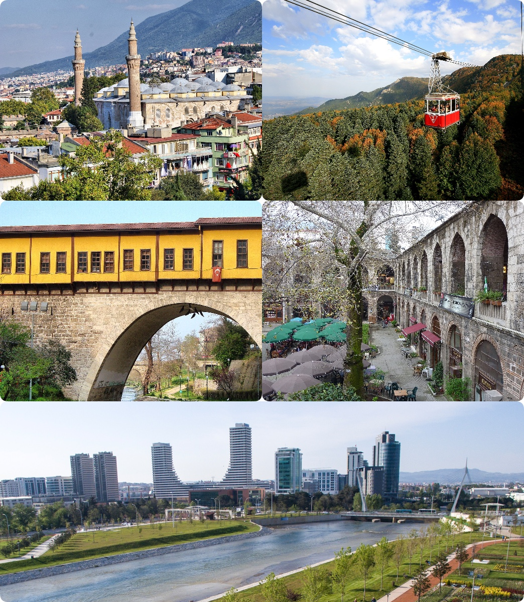 Collage of Bursa